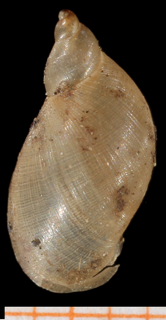 Photo of the shell of Pseudosuccinea columella. Scale in mm. Locality: Germany: Berlin-Dahlem. Date: 02-1953.